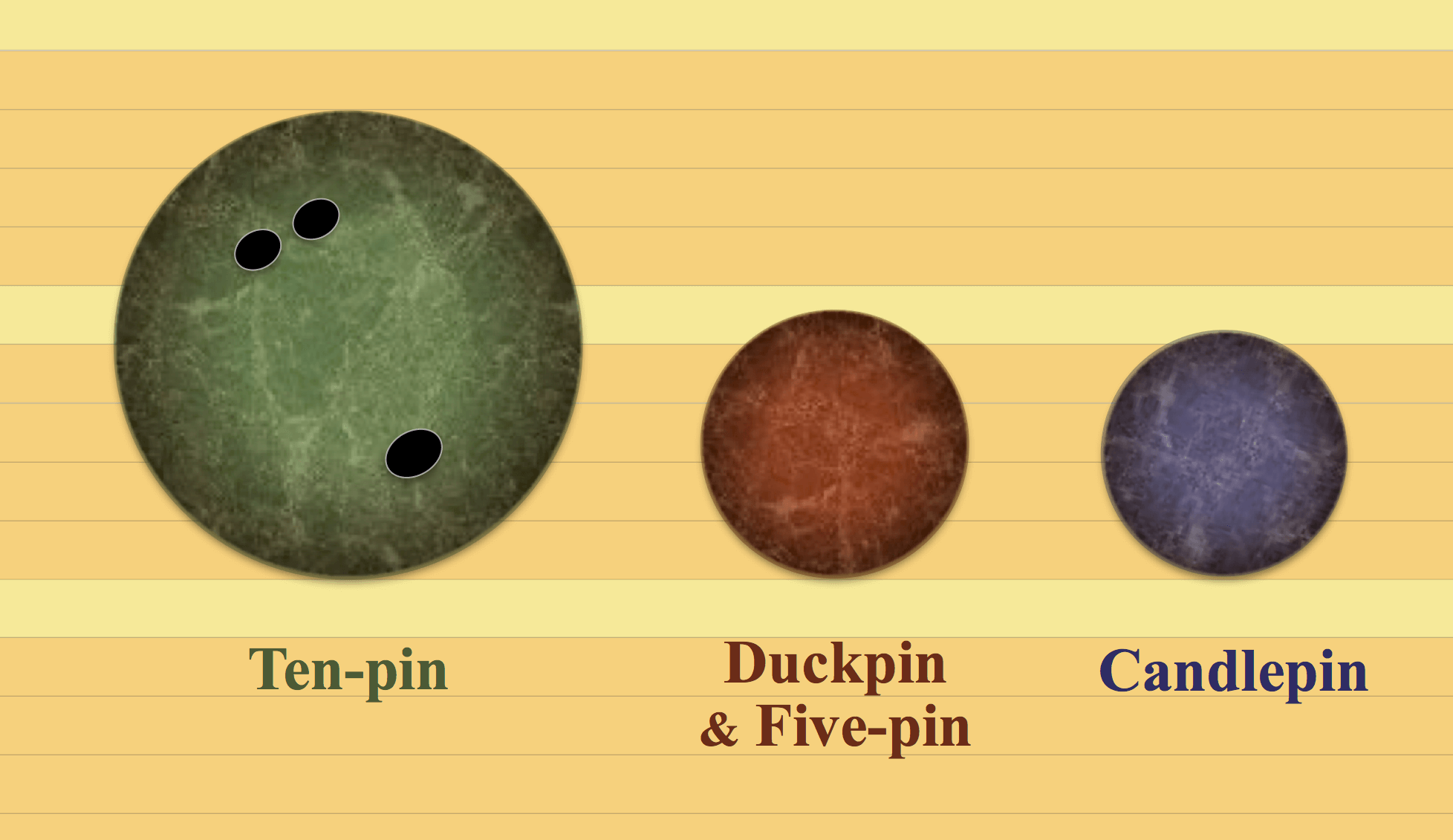 Diagram illustrating relative sizes of bowling balls, rendered atop bowling alley boards.